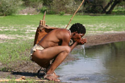 Bushman drinking water from pan.